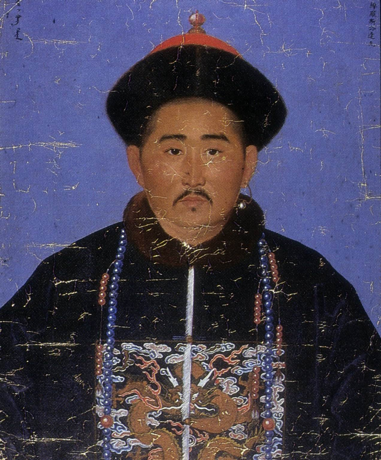 Dawa from Qoros tribe, at Berlin museum.